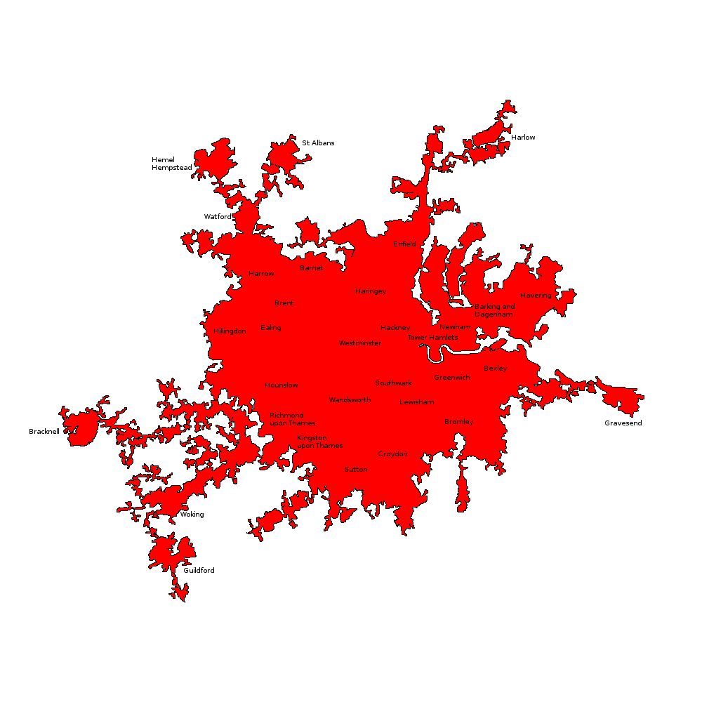 A labelled map of the Greater London Built-up Area.